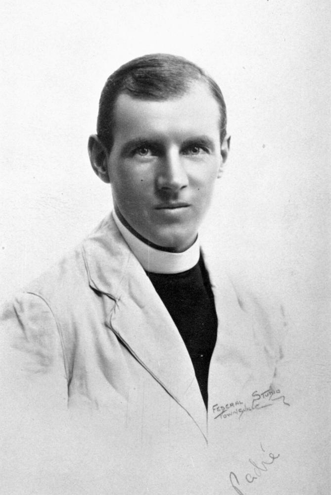 Reverend Harold Hodson, Church of England bush brother, stationed at Richmond North Queensland, circa 1915